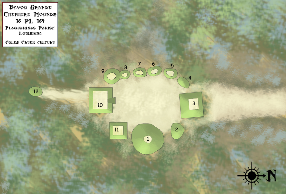 A diagram showing the placement of mounds at the Bayou Grande Cheniere Mounds (16 PL 169), a Coles Creek culture site in Plaquemines Parish, Louisiana.